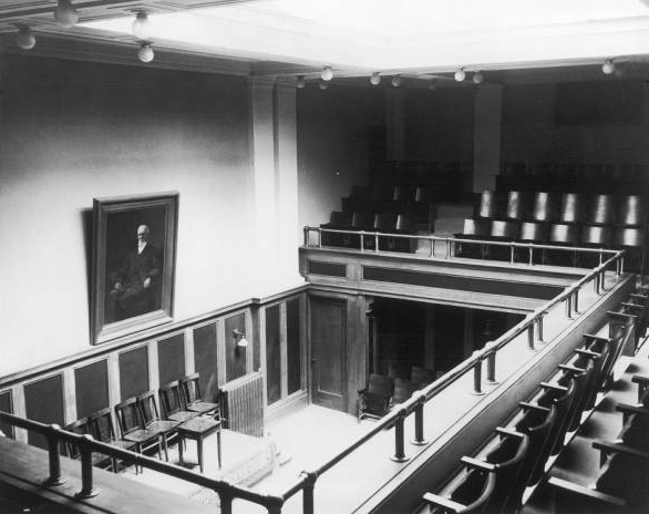 Assembly room in the upper story of the Maeser Building. Faculty meetings were held here until the 1950s, when the area was renovated into offices.